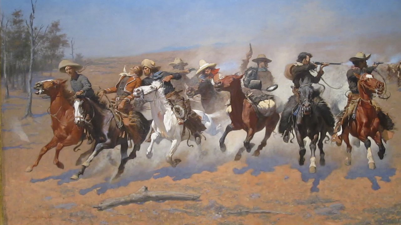 A Dash for the Timber